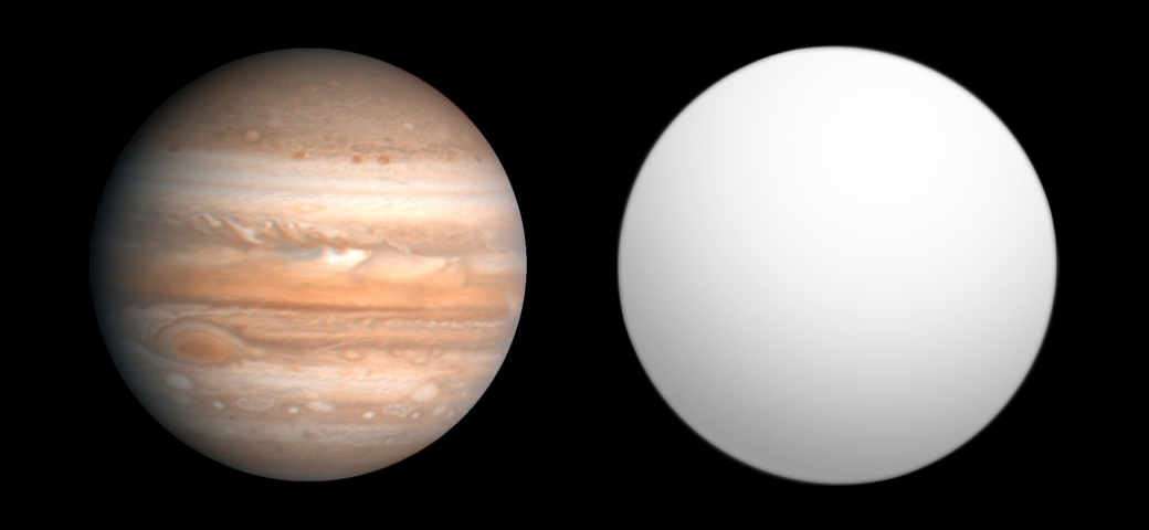 Comparison of best-fit size of the exoplanet CoRoT-3 b with the Solar System planet Jupiter, as reported in the Extrasolar Planets Encyclopaedia[1] as of 2010-10-03. ↑ Extrasolar Planets Encyclopaedia (2010-09-30). Retrieved on 2010-10-03.